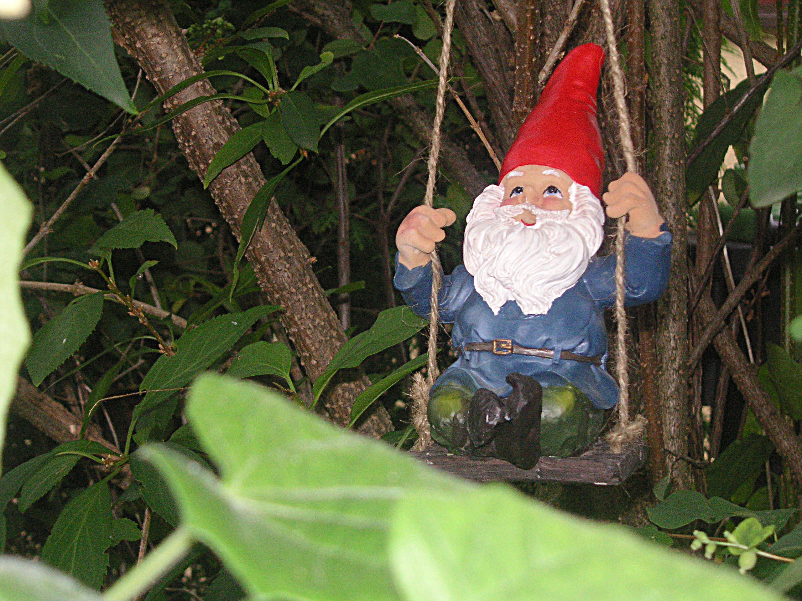 Photo by KF, August 2005.